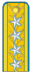 Romanian Air Forces General insignia